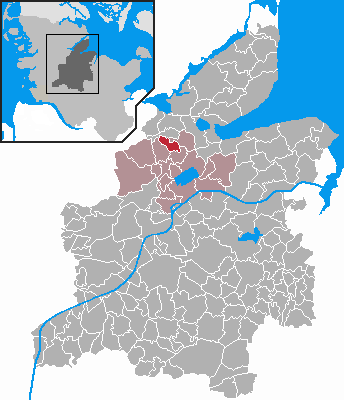 Locator maps of municipalities in Schleswig-Holstein - District Rendsburg-Eckernförde